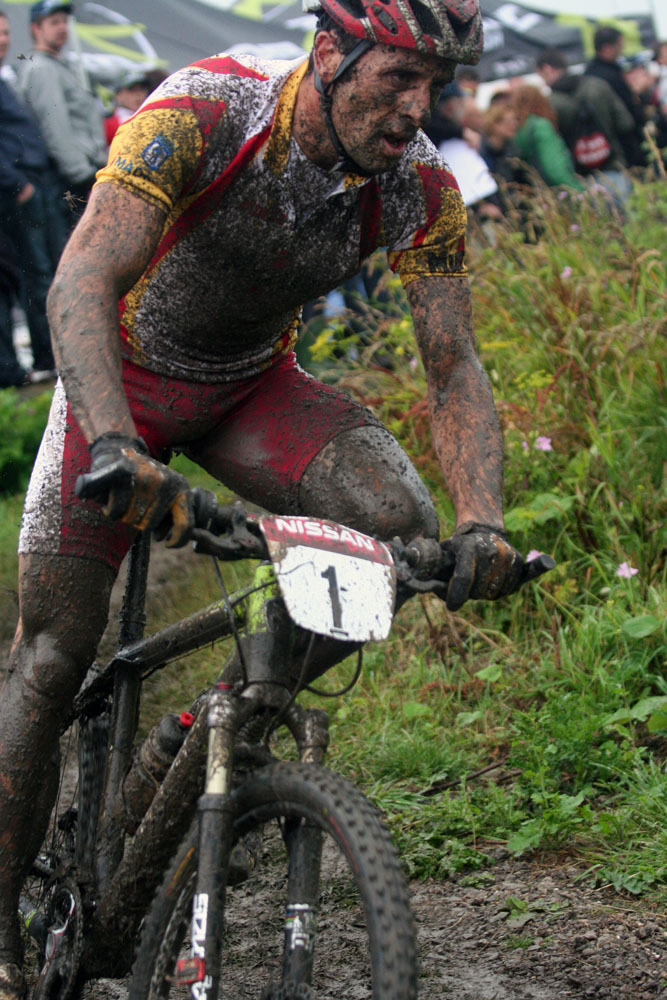 Hermida con seleccion española